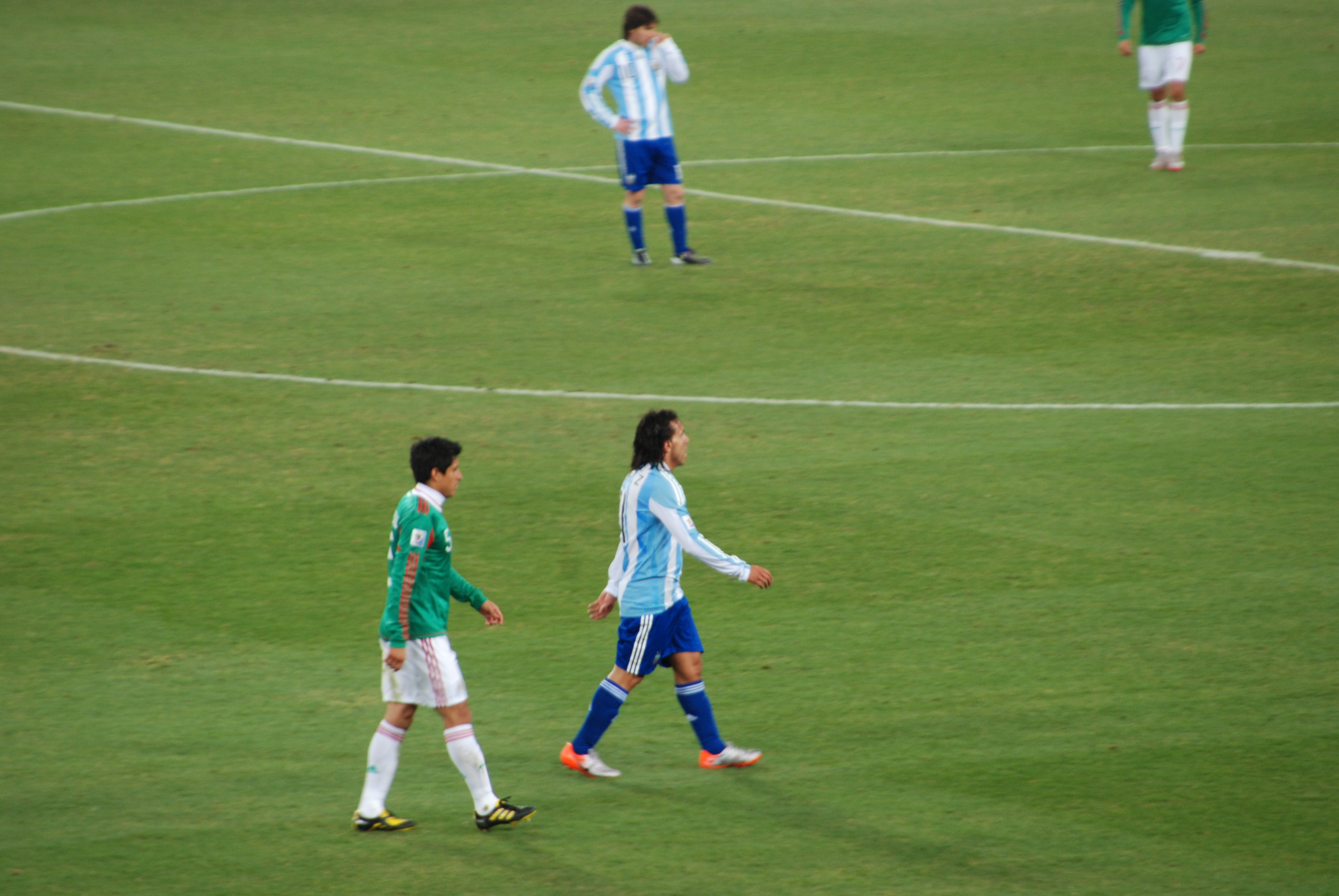 Argentina and Mexico match at the FIFA World Cup June 27th, 2010.